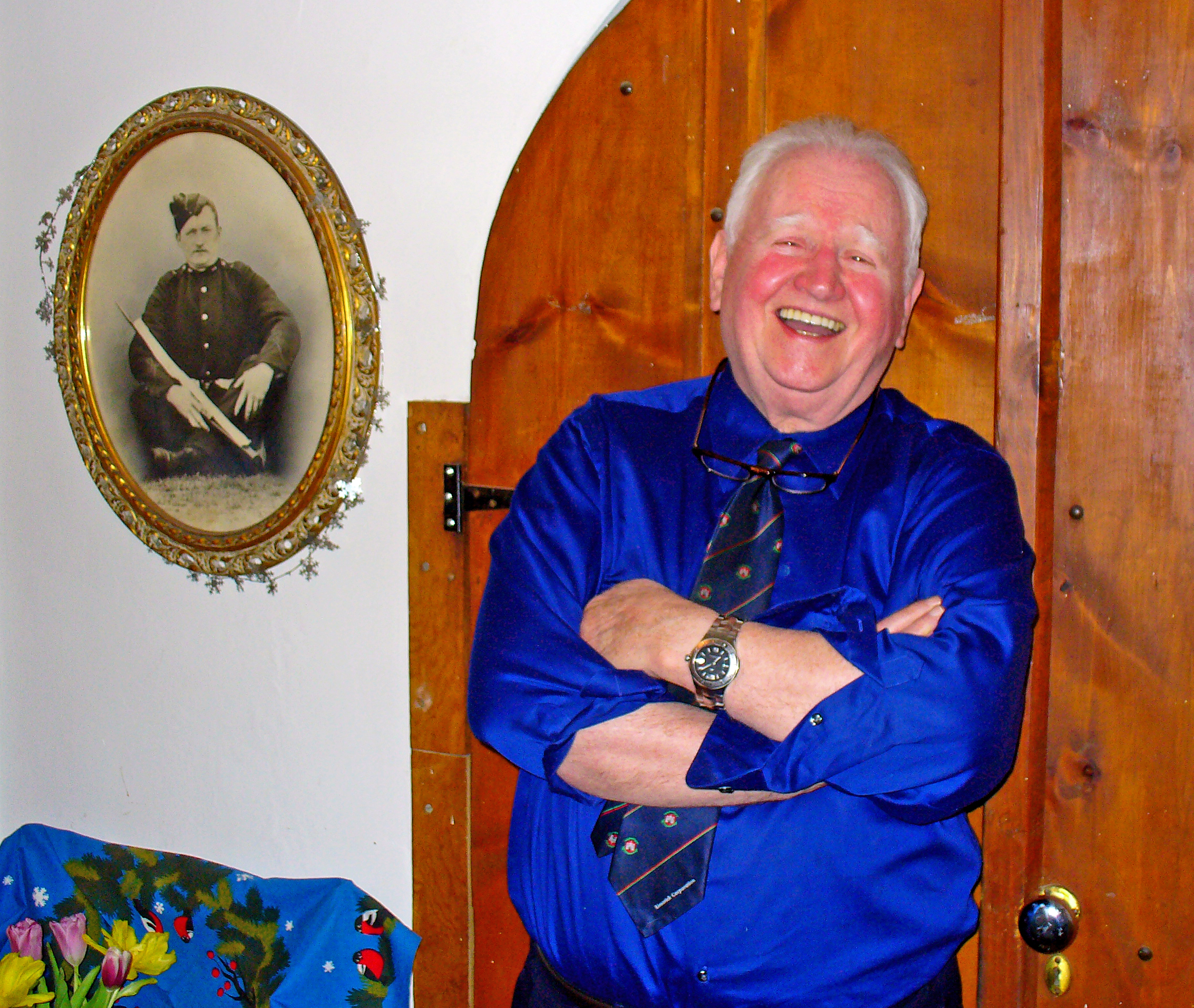 Malachy McCourt at his home in Manhattan. Photographer's blog post about the death of brother Frank McCourt, whom he also photographed.